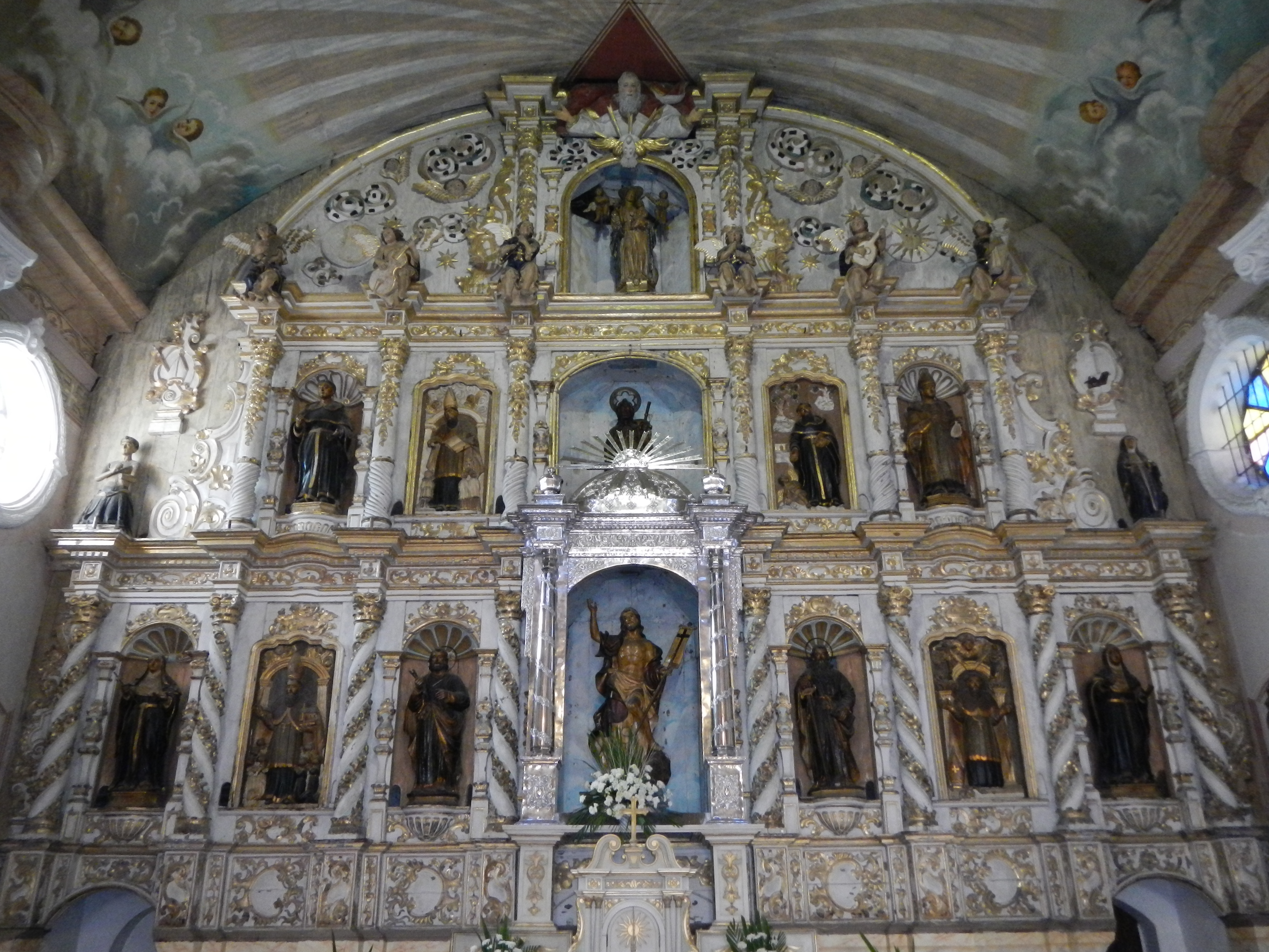 [1]Betis Church[2]